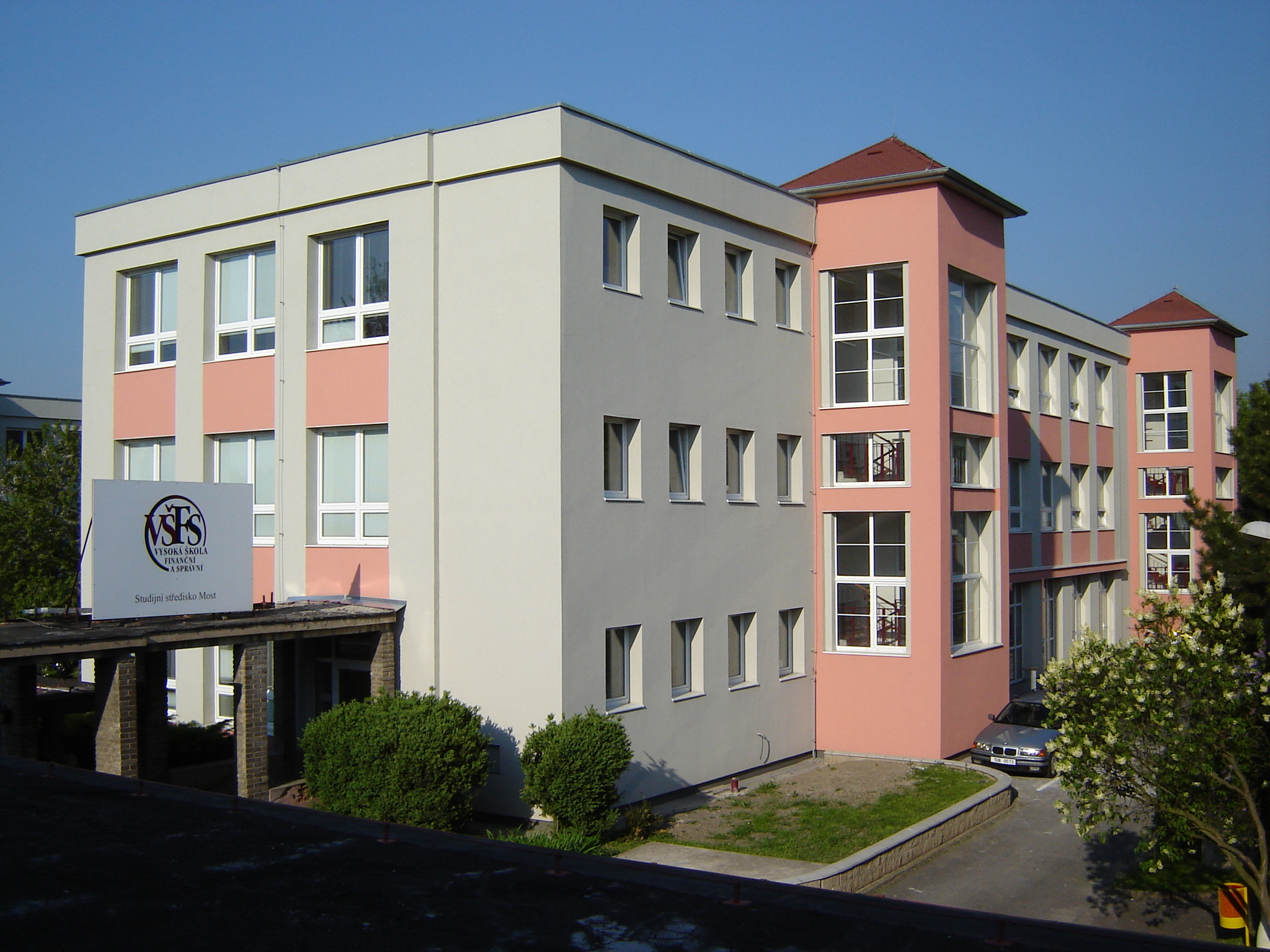 Building of Vysoká škola finanční a správní o. p. s. in Most